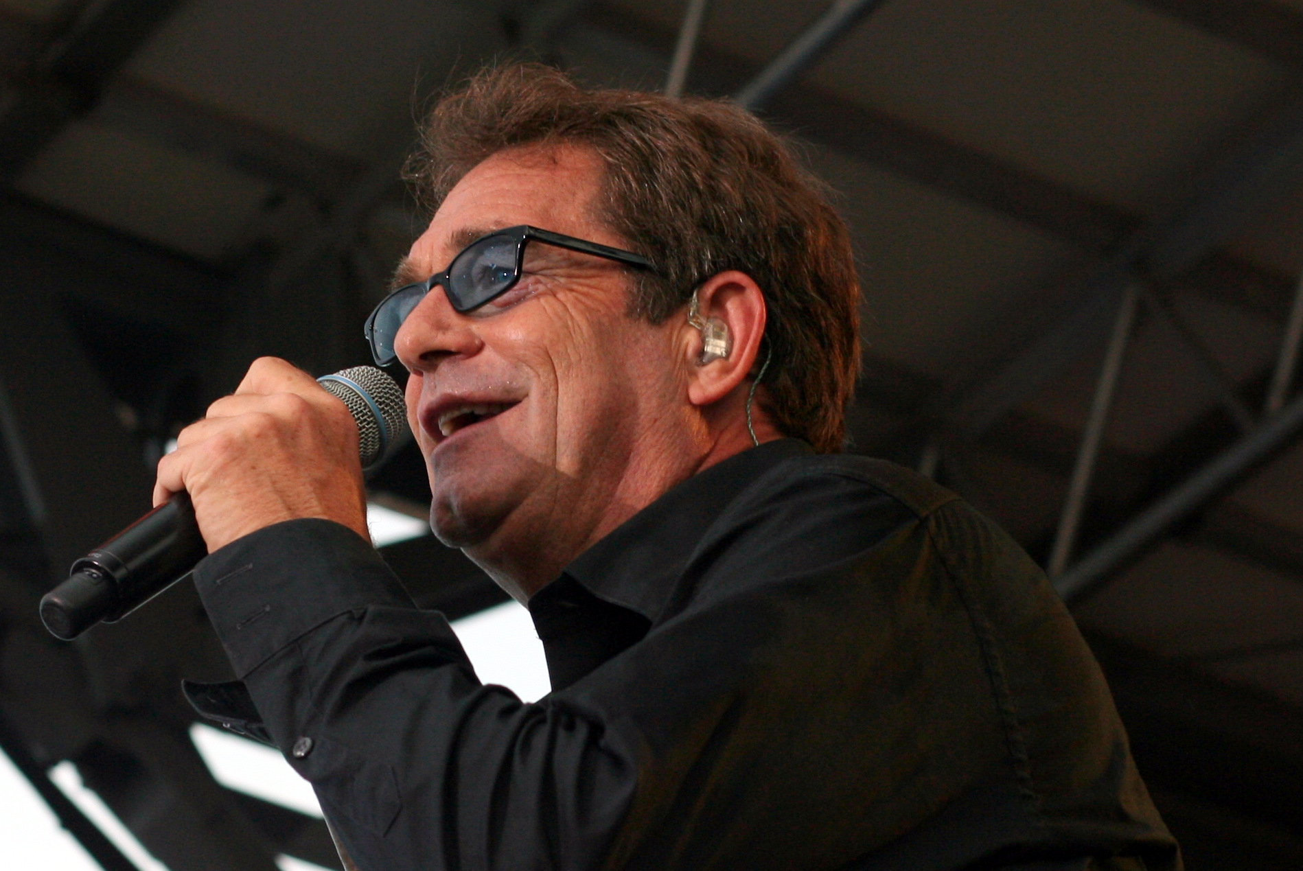 Huey Lewis and The News, June 23, 2013 at Montrose Beach